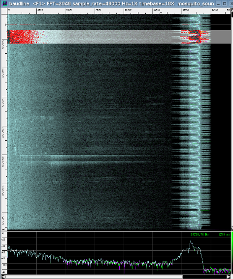 snaphot of the program baudline.